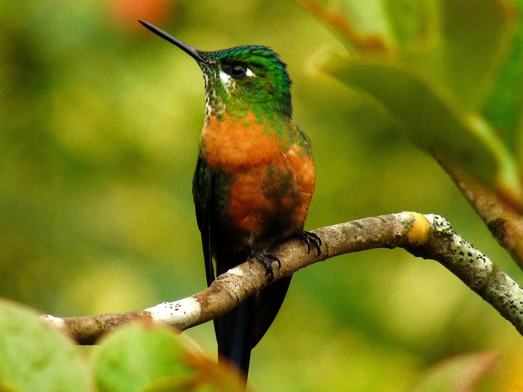 Female Long-tailed Sylph (Aglaiocercus kingi), at "El Bosque Cafetero", Manizales, Colombia.